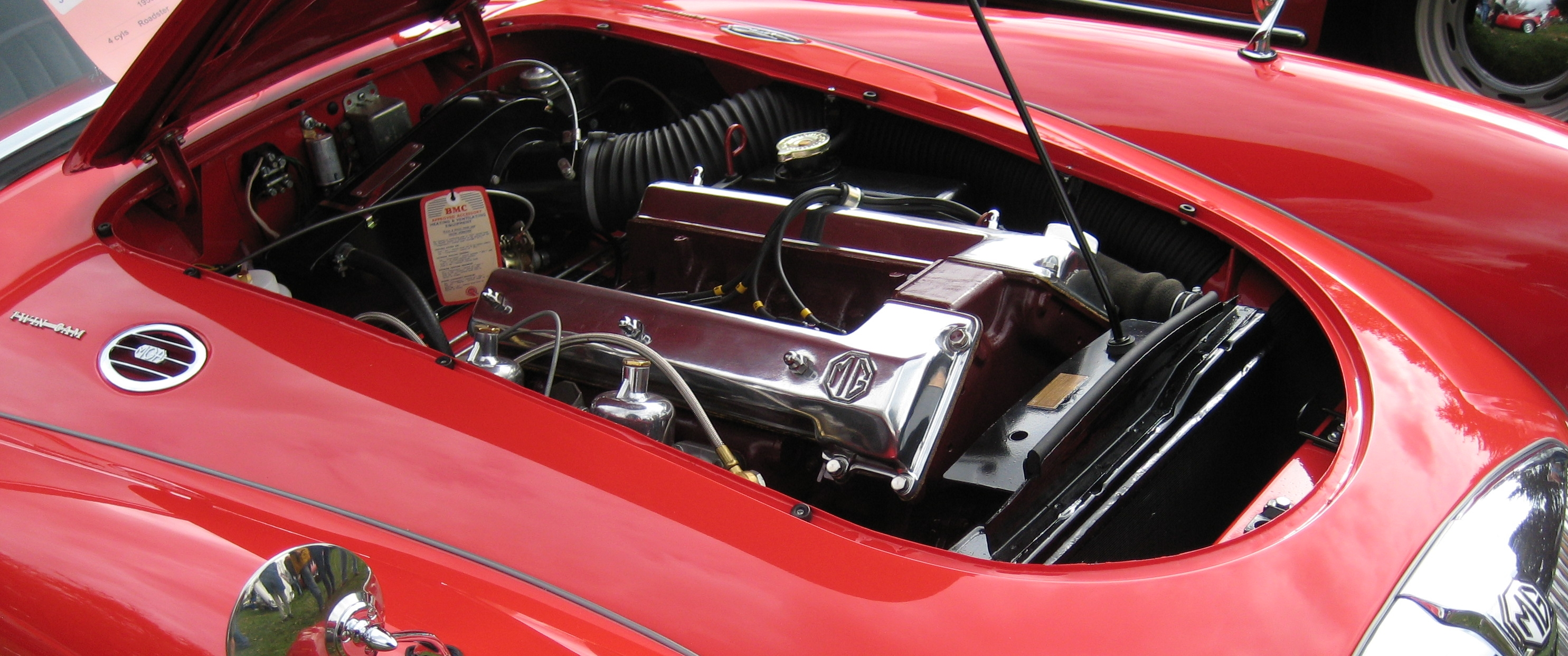 MG A Twin Cam engine bay AACA Eastern Region Fall Meet, Hershey, Pennsylvania, October 2009